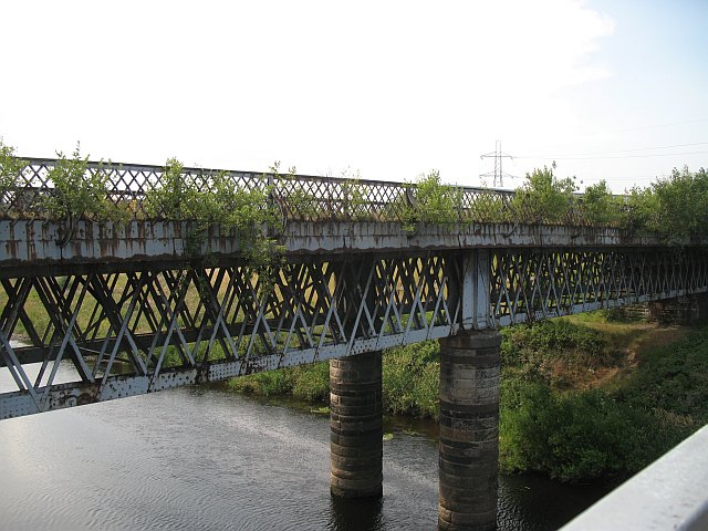 Cambuslang Bridge Disused bridge over the Clyde, now sprouting saplings. View from the bridge carrying the Clyde Walkway.